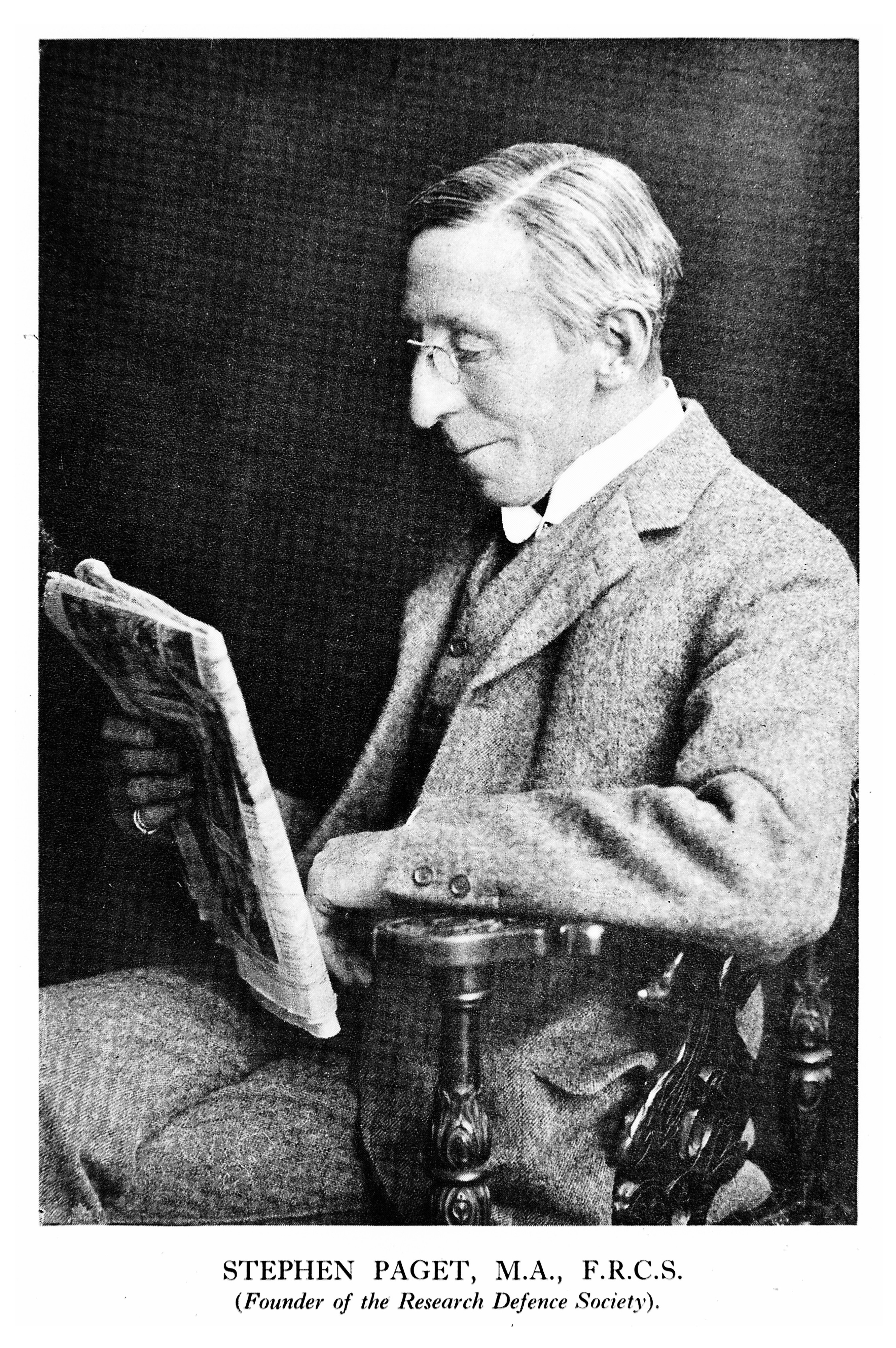 Portrait of Stephen Paget reading newspaper. Wellcome Images